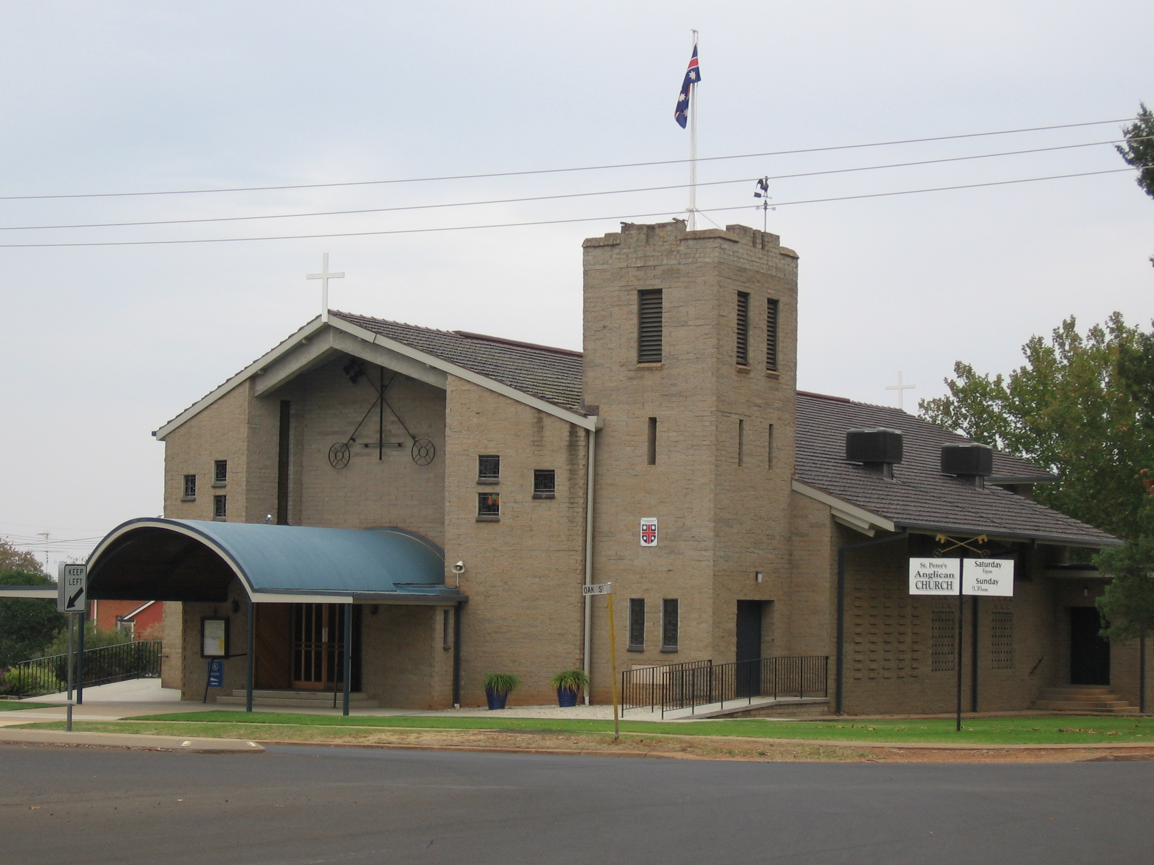 w:St Peter's Anglican Church at Leeton, New South Wales|St Peter's Anglican Church at Leeton, New South Wales